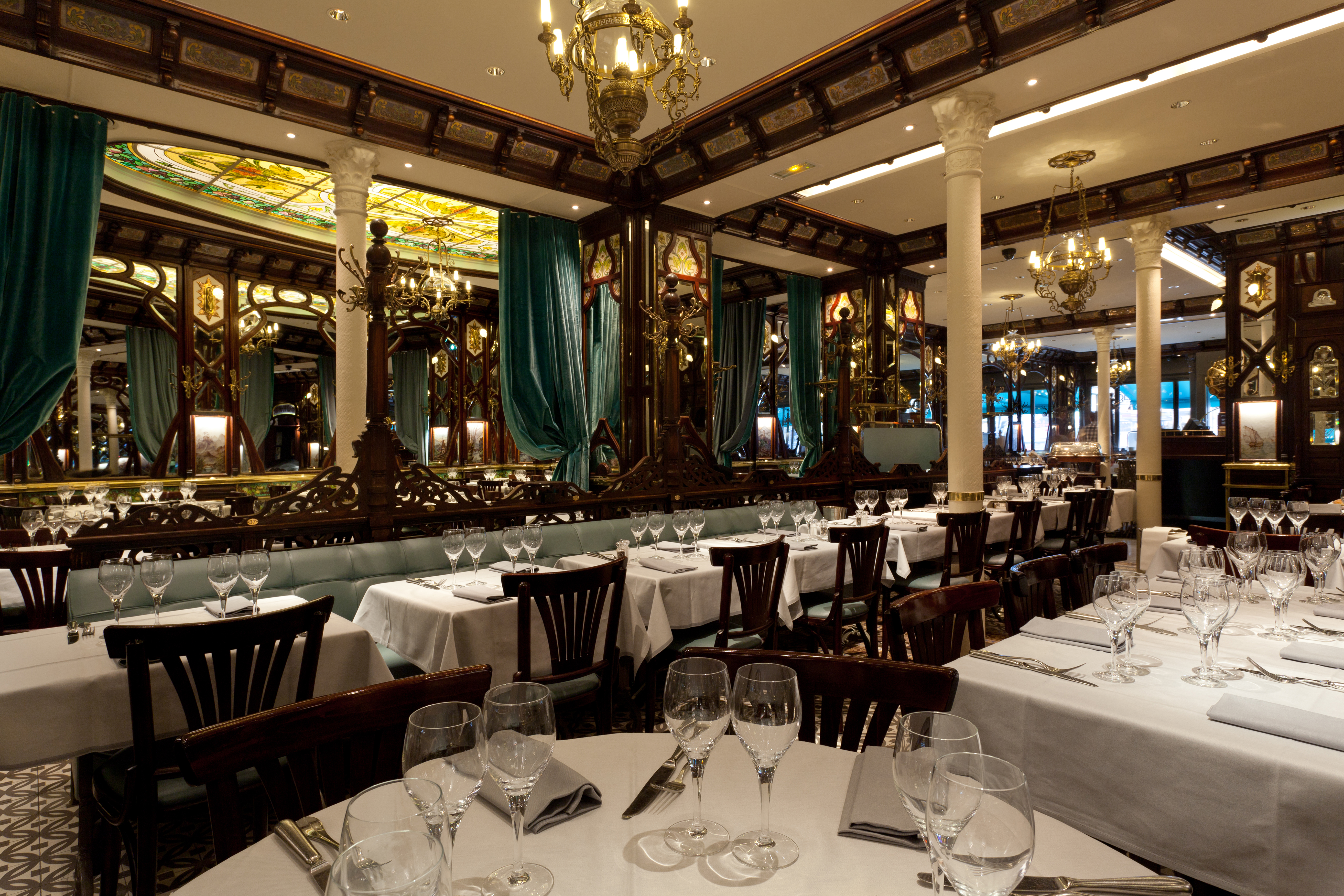 Interior of the Brasserie Vagenende, 142 Boulevard Saint-Germain, 75006 Paris, France.